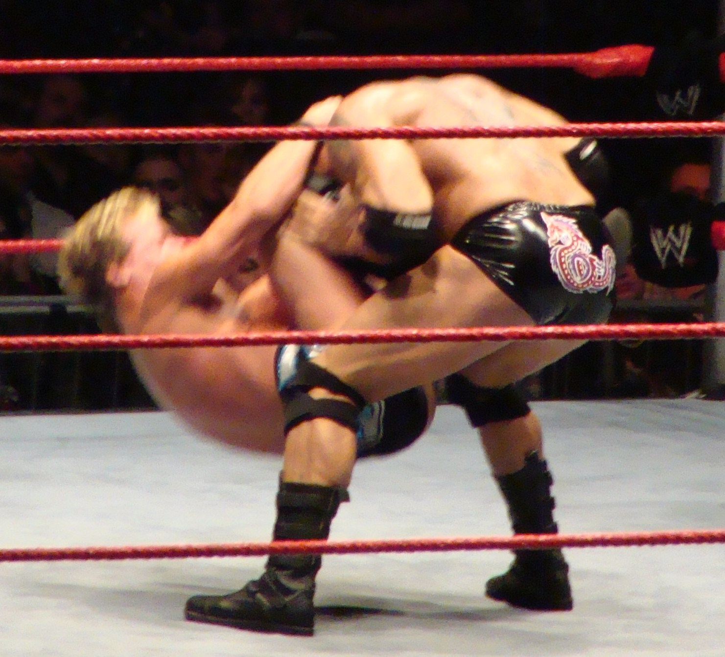 Chris Jericho (Christopher Irvine) performs the Codebreaker (Double Knee Facebuster) on Batista (David Bautista)